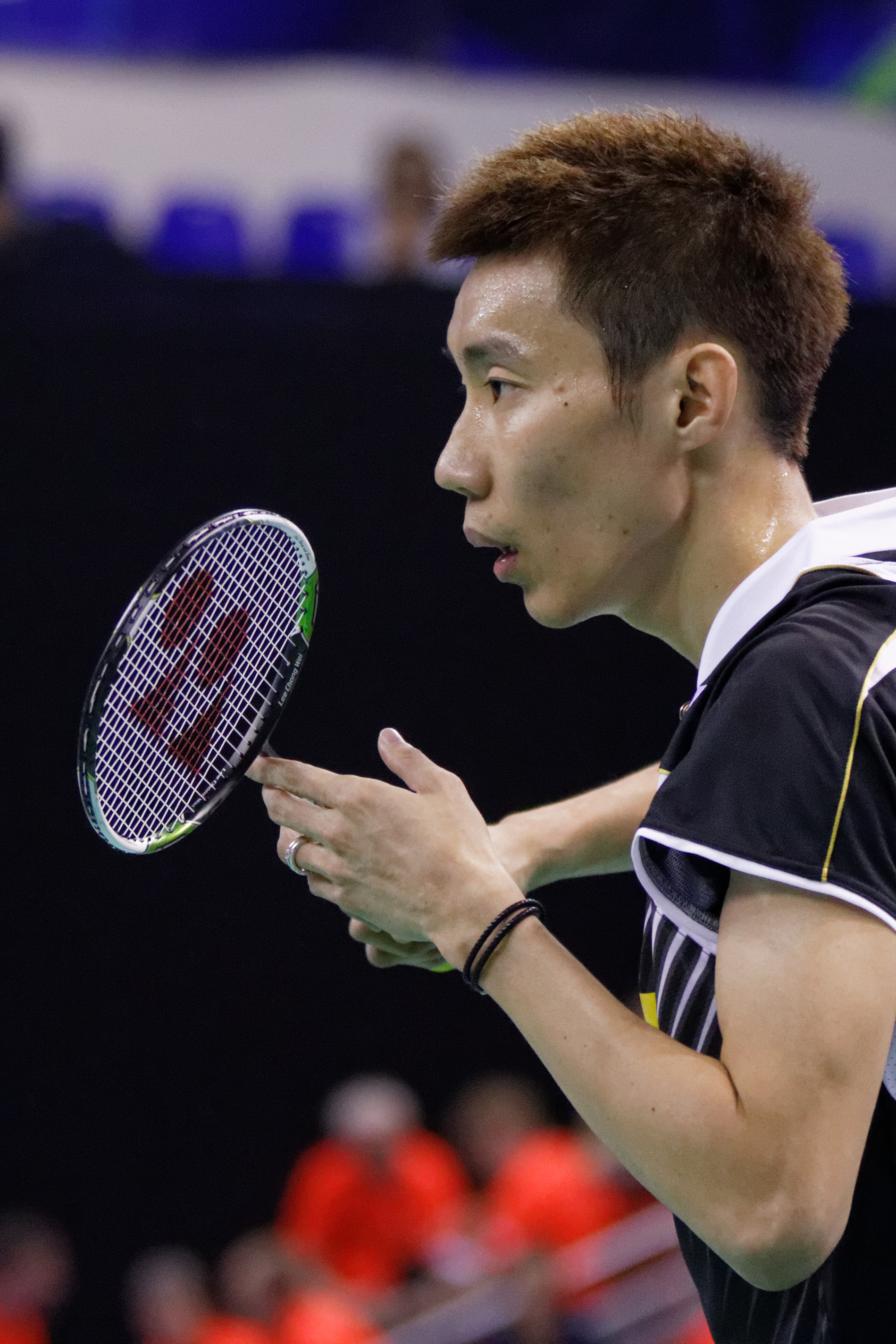 2013 French open. Men's singles quarterfinal. Lee Chong Wei vs Boonsak Ponsana.